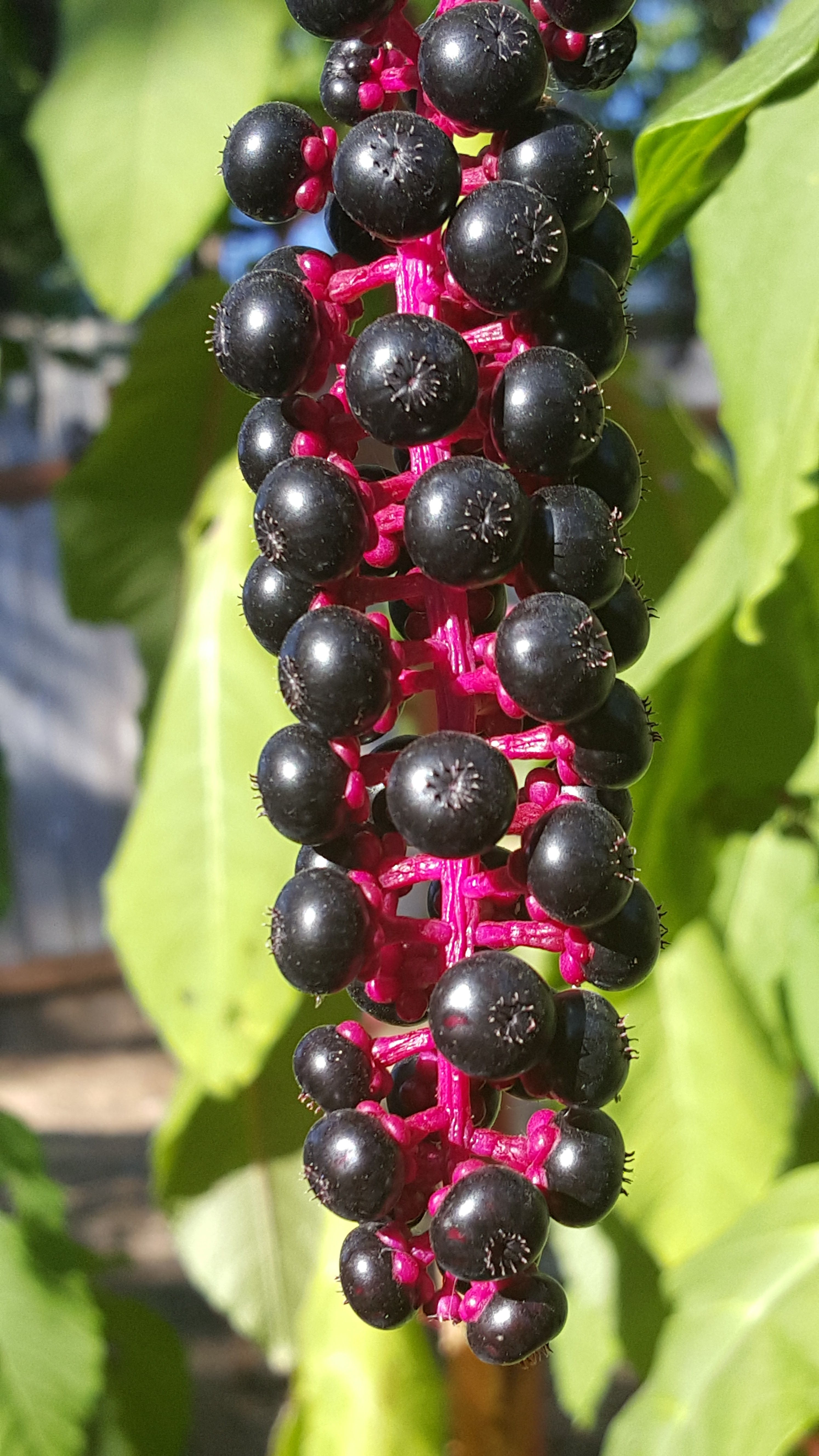 Berry cluster of pokeweed, Phytolacca americana.